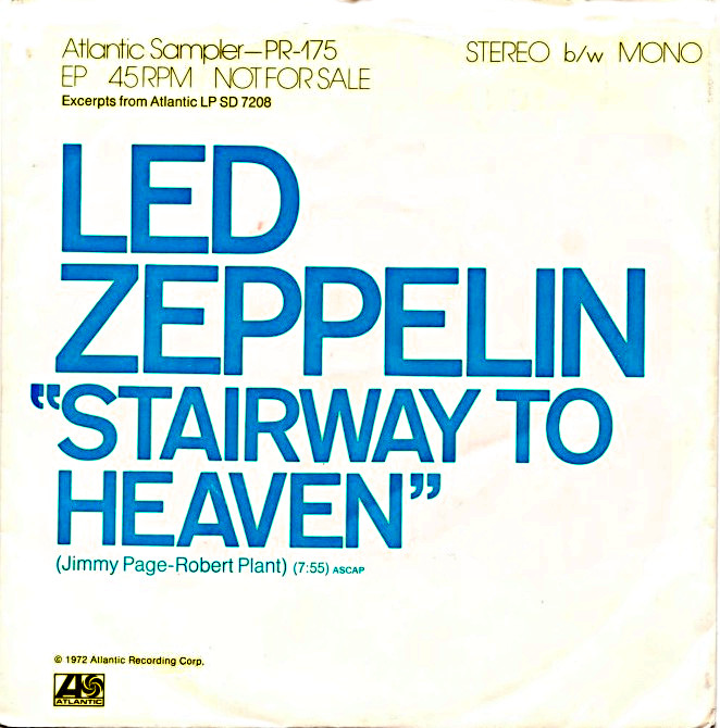 "Stairway to Heaven" by Led Zeppelin; US promotional material